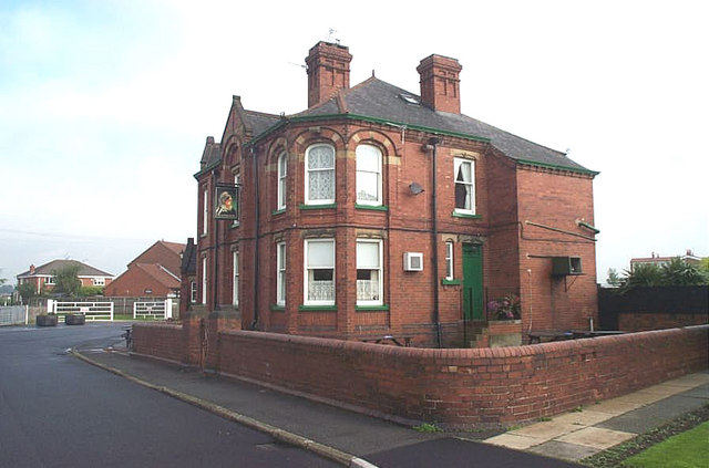 The Victoria Pub, Main Street, Allerton Bywater.